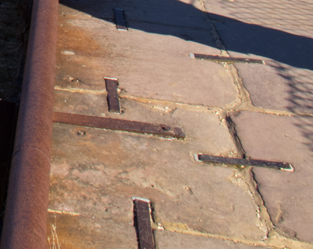 Detail of iron cramps (like staples) to hold lock stones together. This is at Riley's Lock (lock 24) or the Seneca Aqueduct, on the Chesapeake and Ohio Canal. This is a closeup of Lock_24_Rileys_Lock_in_Winter.jpg